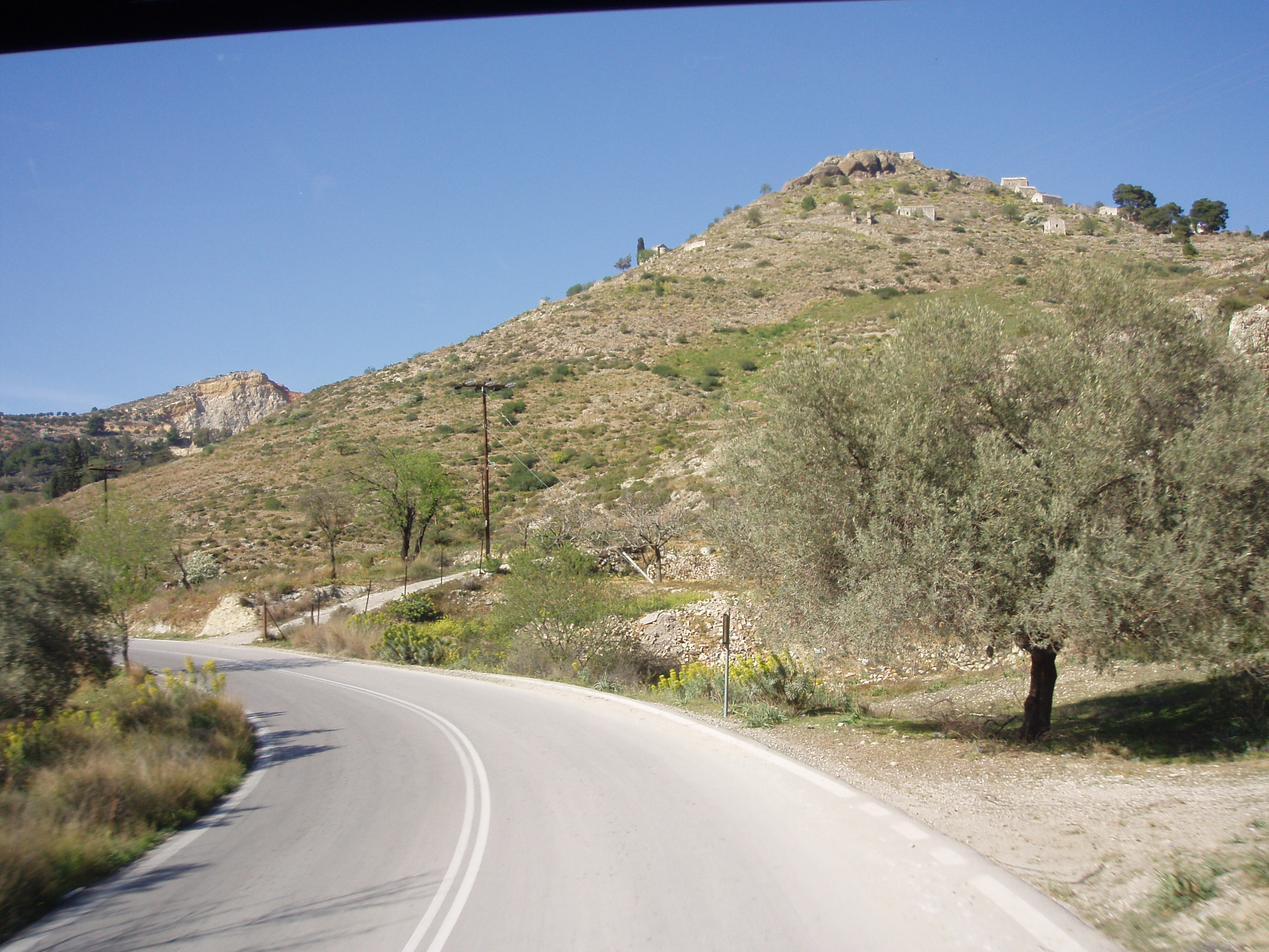 Island of Aegina, Greece: view of the hill of Palaiochora (or Paleochora, gr. Παλαιοχώρα), an abandoned village. While the houses of the village have been destroyed, more than 30 churches and chapels have been preserved.